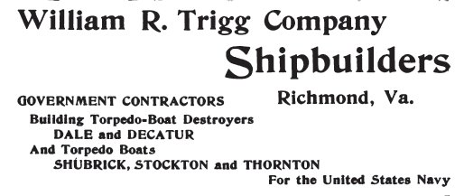 An 1899 advertisement for the U.S. shipbuilding firm of William R. Trigg Company.